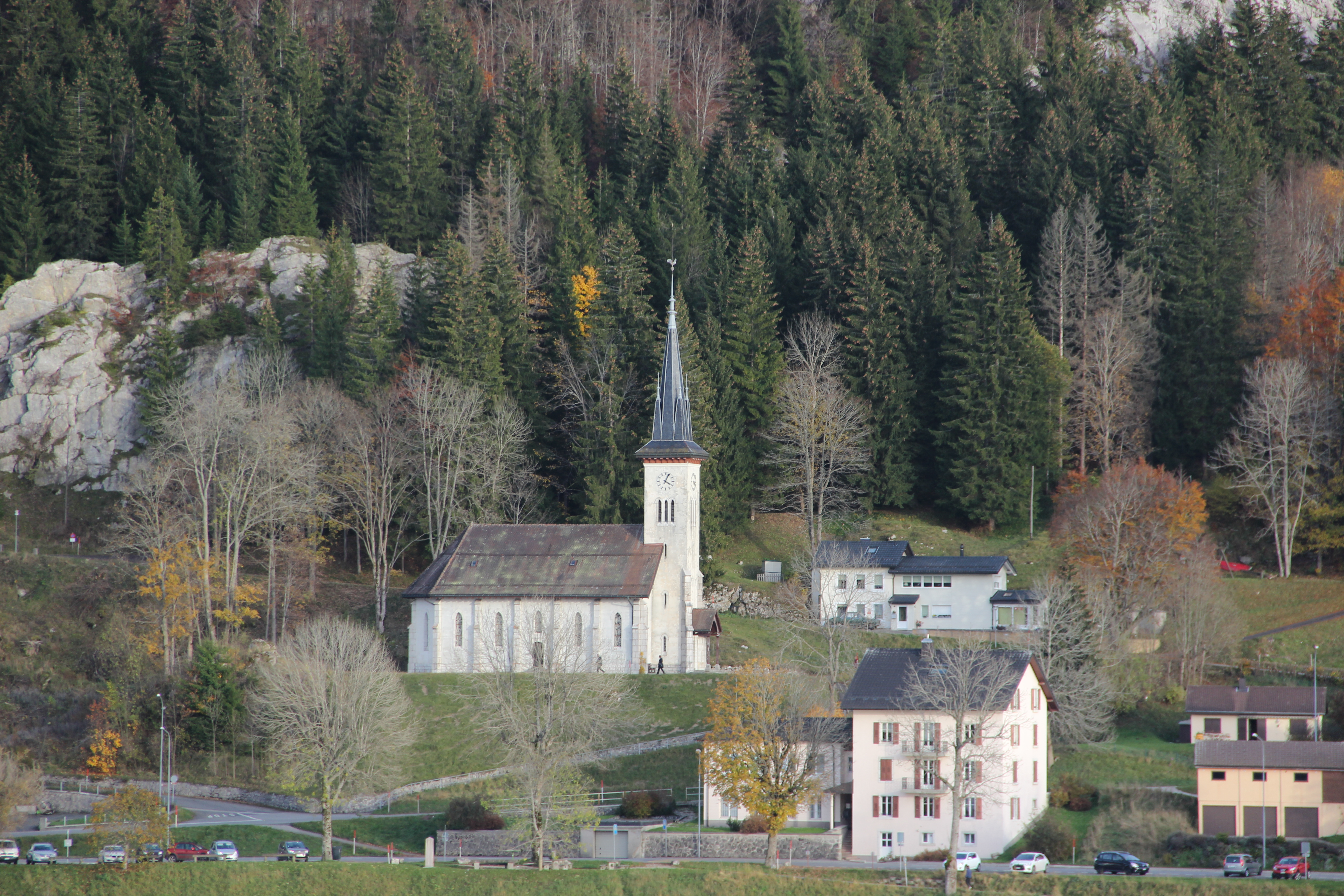 Church in Le Pont